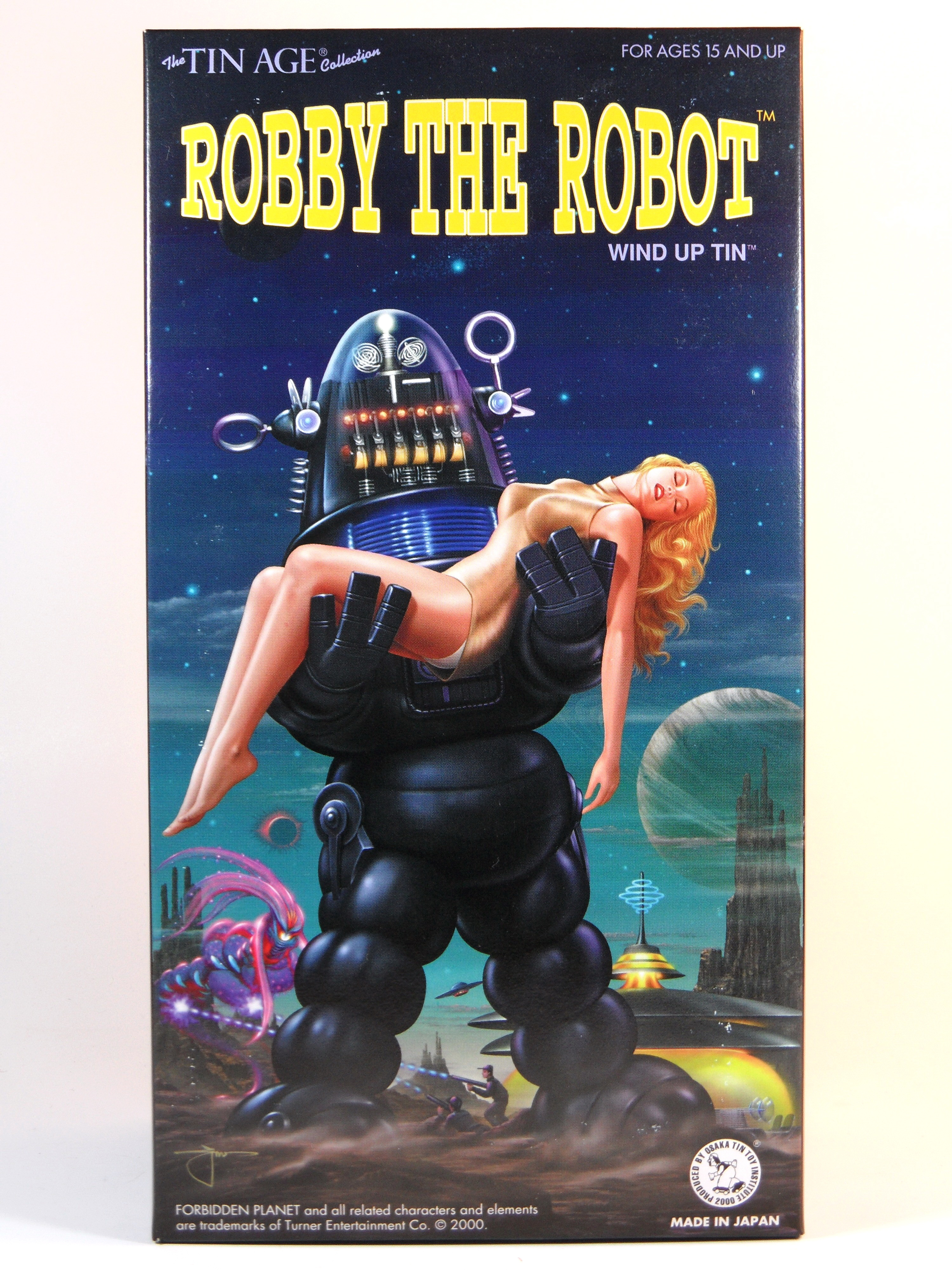 More pictures of My Toy Museum's at Flickr. Most of those toys do still have copyrights so i can't publish them here!